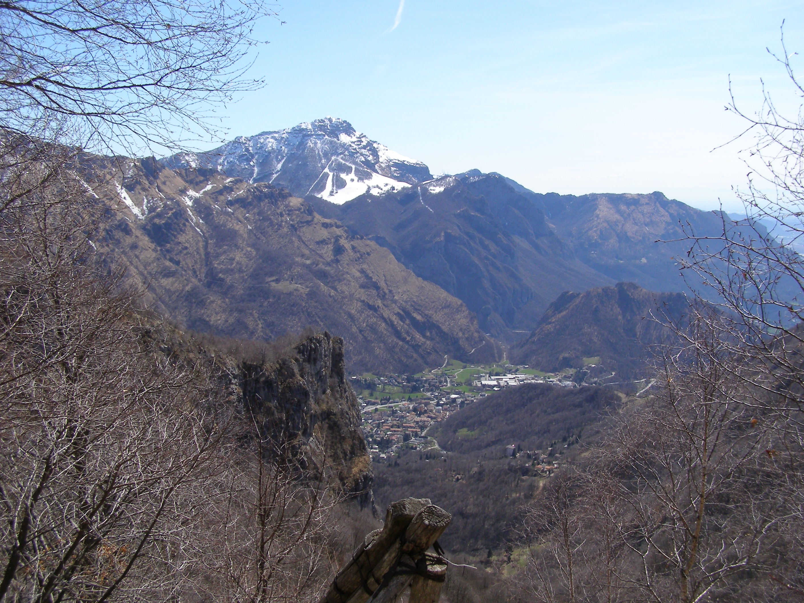 Monte Resegone, view from the Piani Resinelli